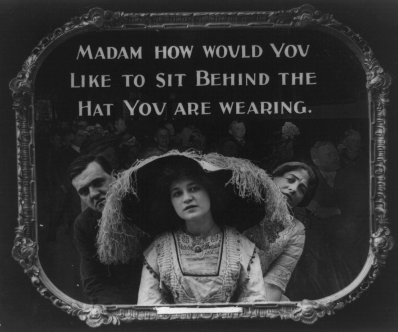 Cinema title card from c1912 asking "Madam, how would you like to sit behind the hat you are wearing?"